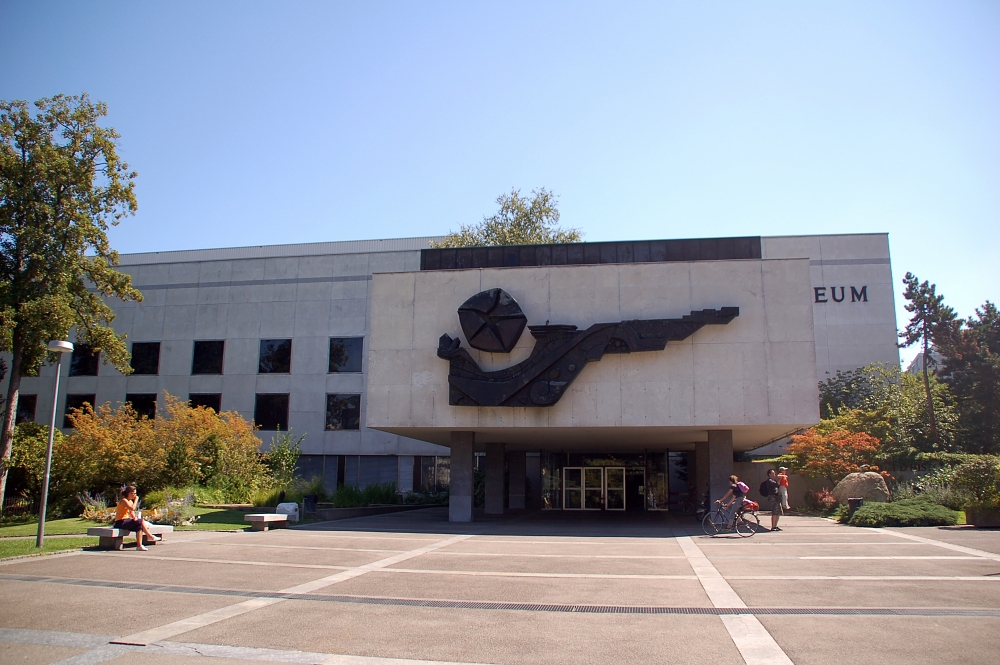 Museum d'histoire naturelle, Geneva, Switzerland